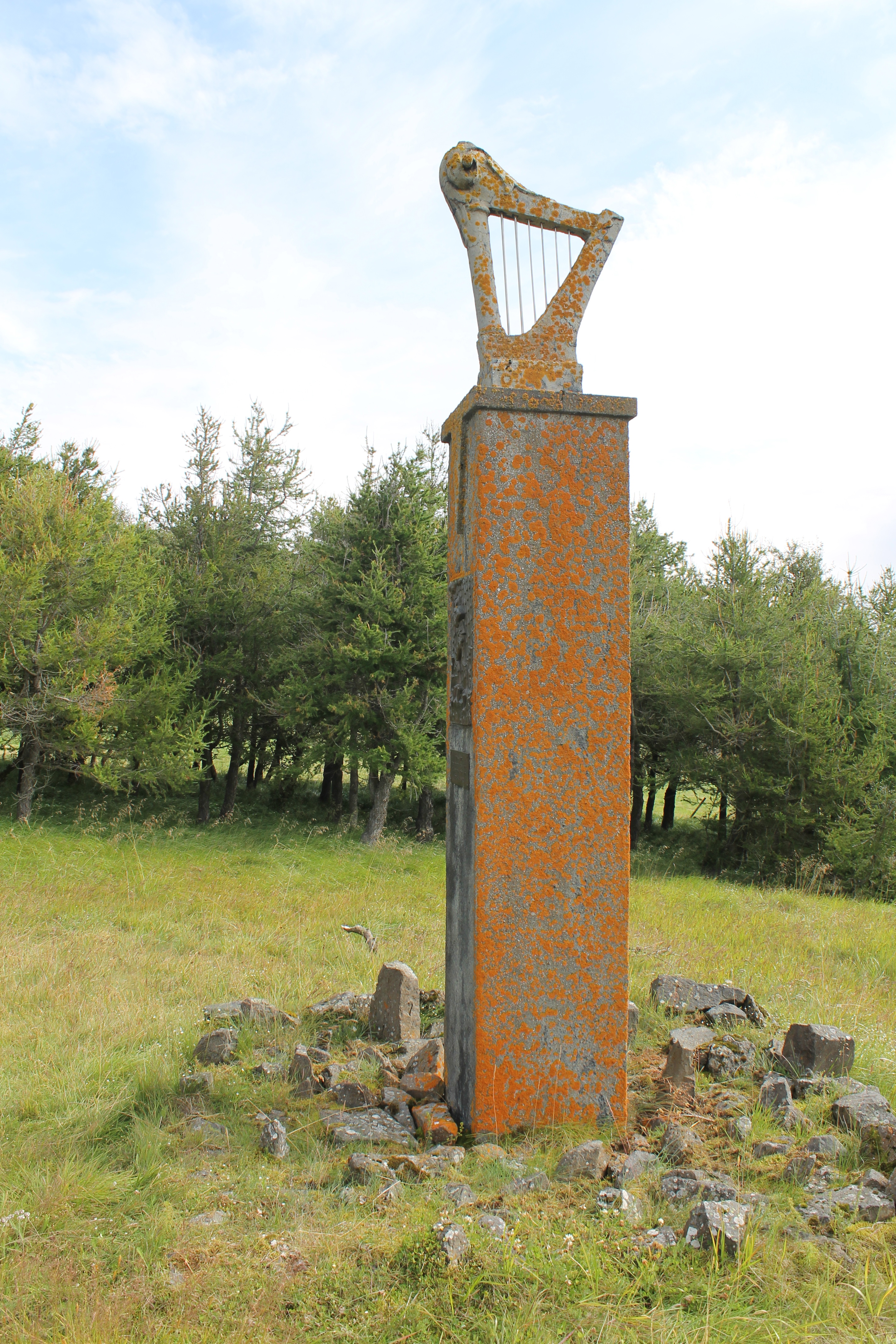 Memorial for the poet Bólu-Hjálmar Jónsson, at Bóla, Skagafjörður, Northern Iceland.